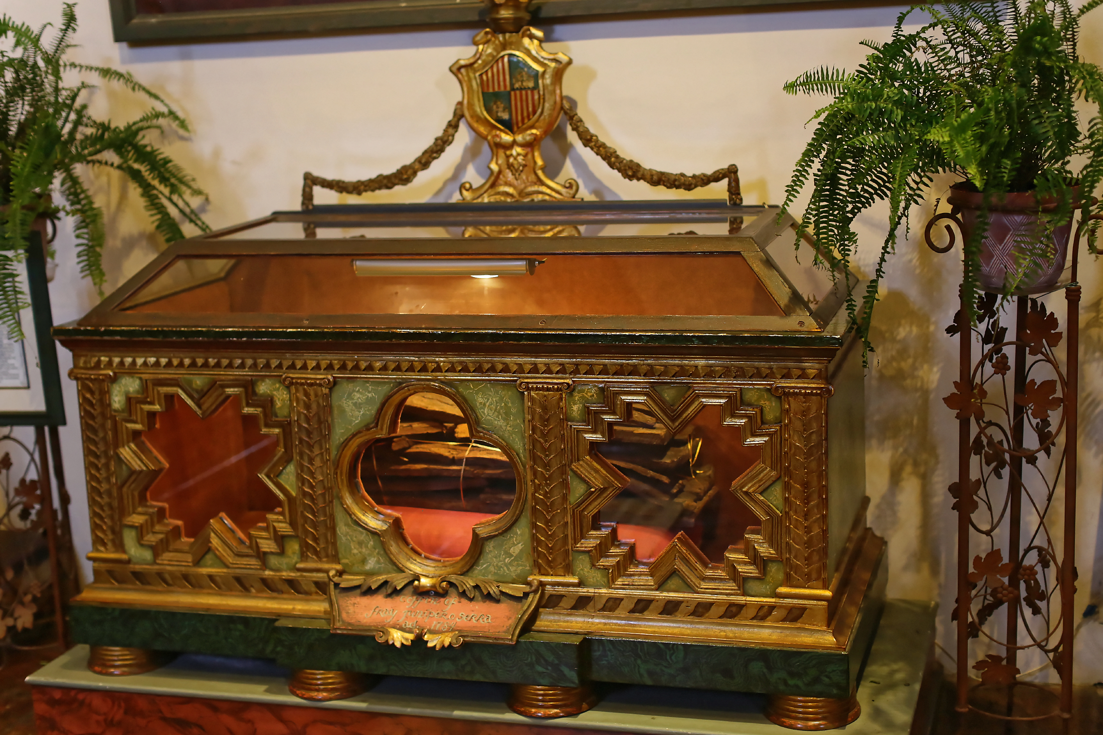 Mission San Carlos Borroméo del río Carmelo, Carmel, California. Also known as the Carmel Mission, it remains a parish church today. It is the only one of the California Missions to have its original bell tower dome